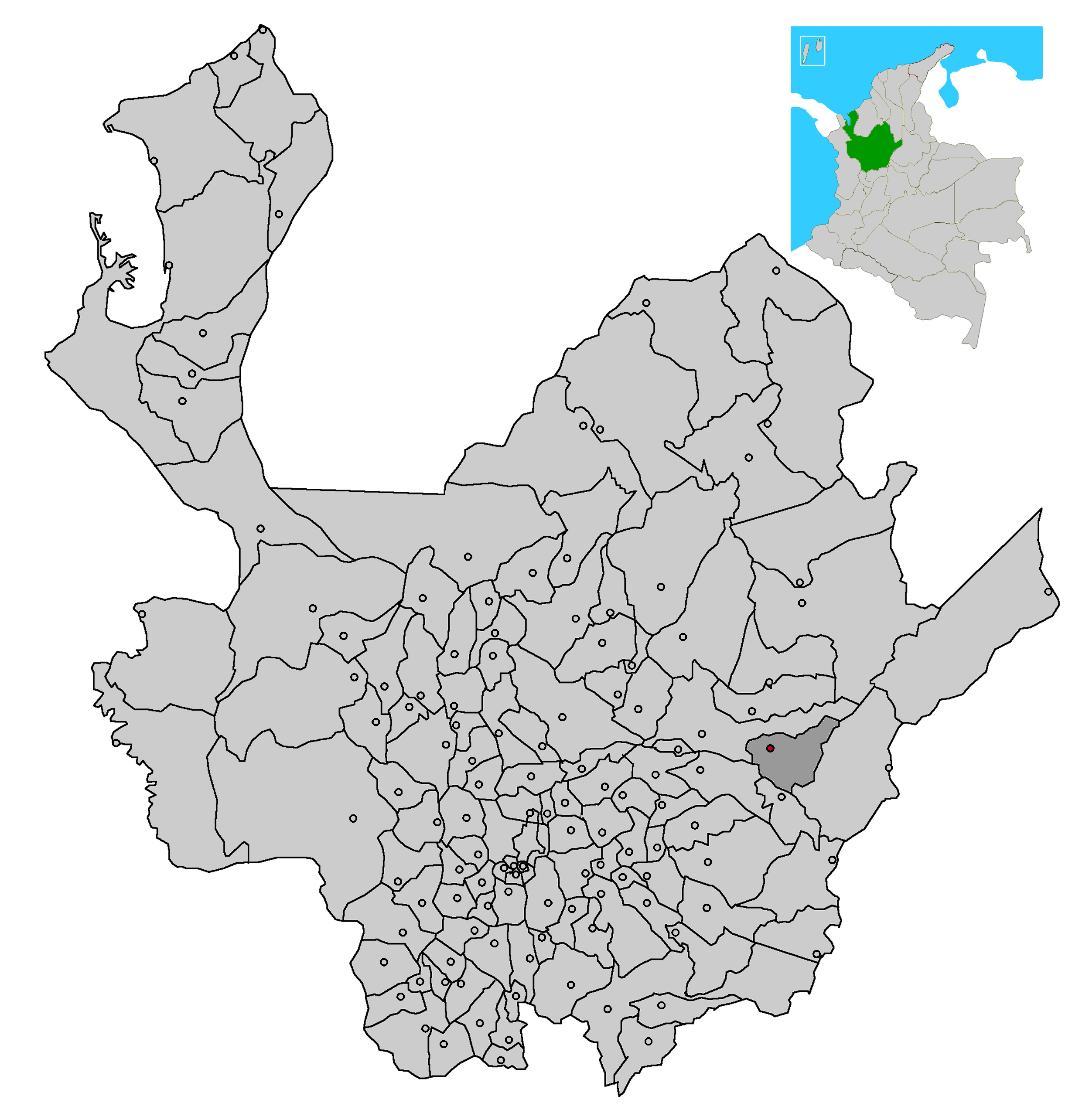 Image depicting map location of the town and municipality of Maceo in Antioquia Department, Colombia